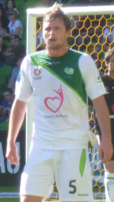 English football player Mark Hughes playing for North Queensland Fury.